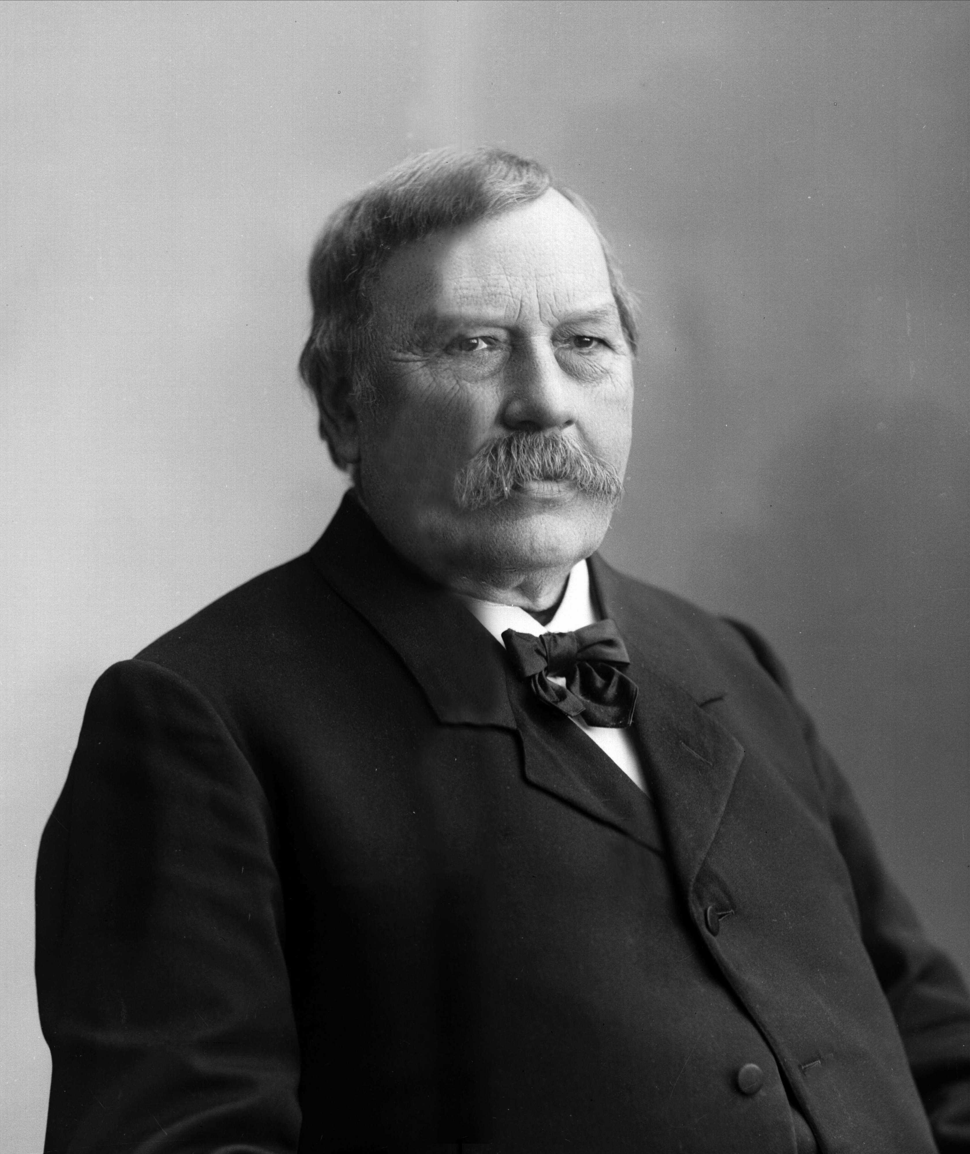 Norwegian chemist and pharmacist Hans Henrik Hvoslef